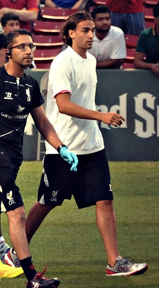 Serbian association football player Lazar Marković before the game Liverpool FC vs AS Roma at Fenway Park, Boston.